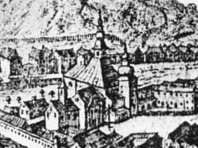 View of Nikolsburg in 1678. From an old print. Image from Balthasar Hübmaier—The Leader of the Anabaptists.